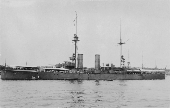 Swedish coastal defence ship HMS Sverige. The ship was delivered to the navy in 1917 and the picture is taken before 1924, when the forward mast was modified.